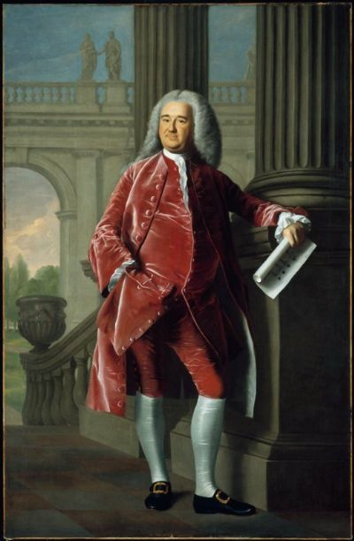 Portrait of Nathaniel Sparhawk od Kittery Point, Maine, son-in-law of Sir William Pepperrell